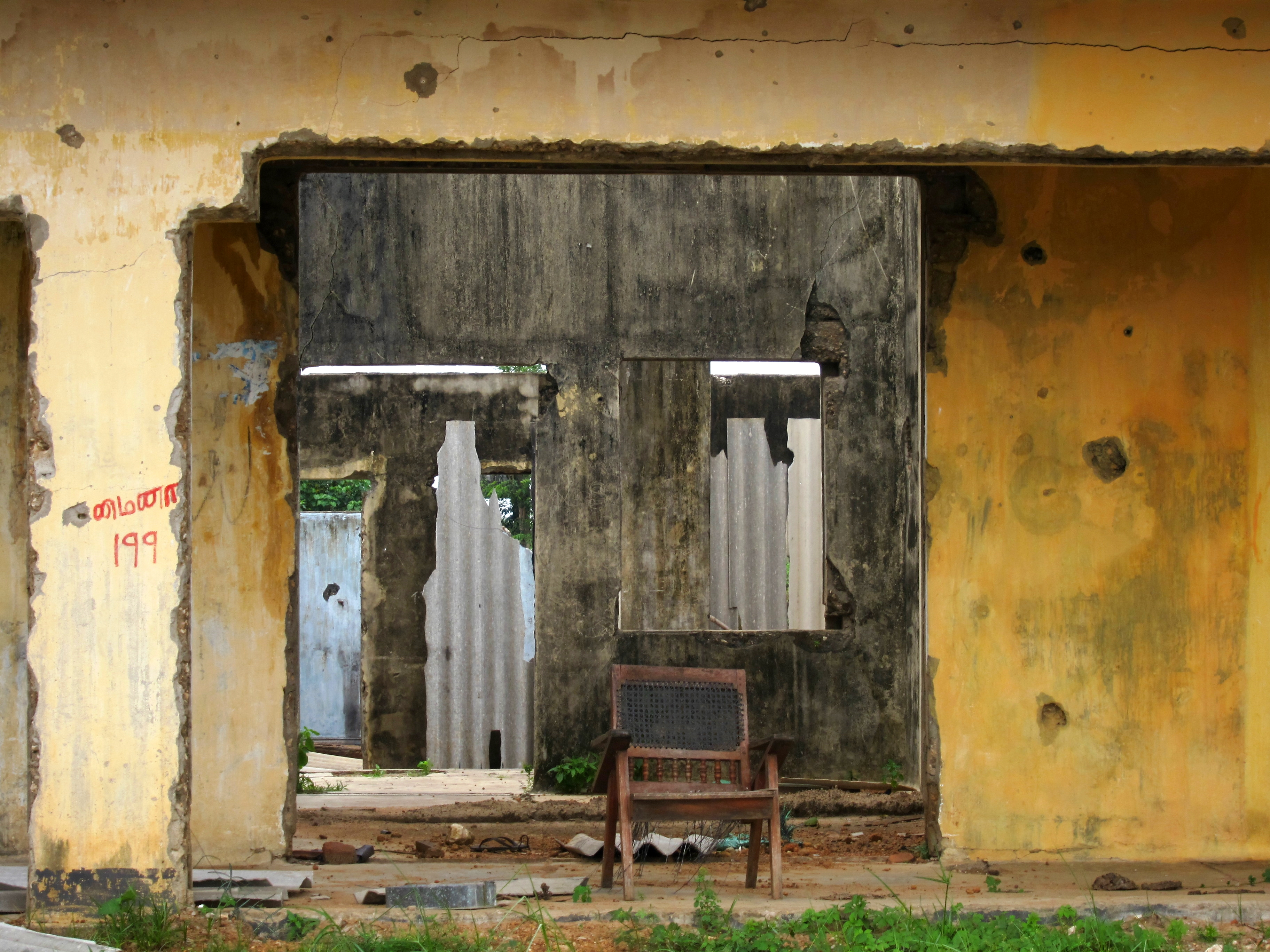 bombed out building